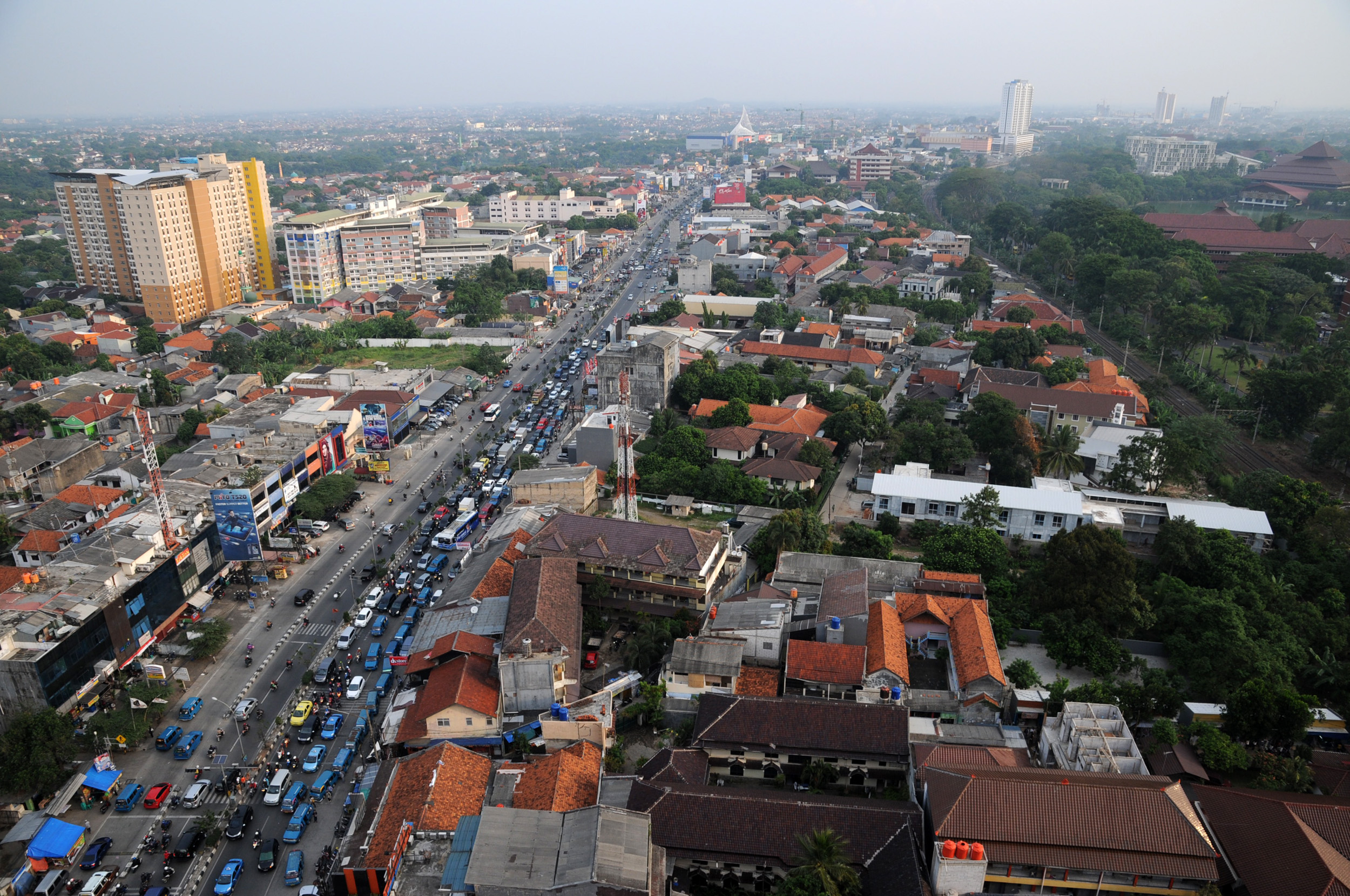 Landscape settlements and apartments in the city of Depok seen from Margonda Raya area, Thursday (12/9). Based on Depok City Office of Spatial and Settlement data for the period 2006 to 2013, the growth rate of residential city of Depok reaches 123 hectare per year with population growth rate about 85 thousand soul or 4.6 percent every year. ANTARA PHOTOS/Indrianto Eko Suwarso/13